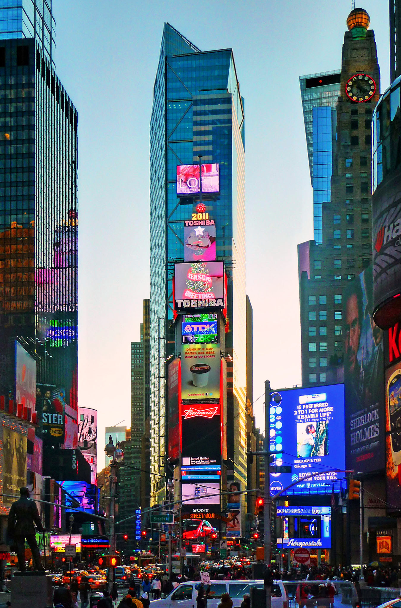 In the centre is One Times Square, a skyscraper originally designed by Cyrus Eidlitz in a neo-Gothic style and completed in 1905; re-clad in the 1960s with a glazed curtain wall (HLW). At right is the Paramount Building in a set-back deco style by the Rapp brothers, 1927. At Broadway and 7th Avenue, Manhattan, NYC.